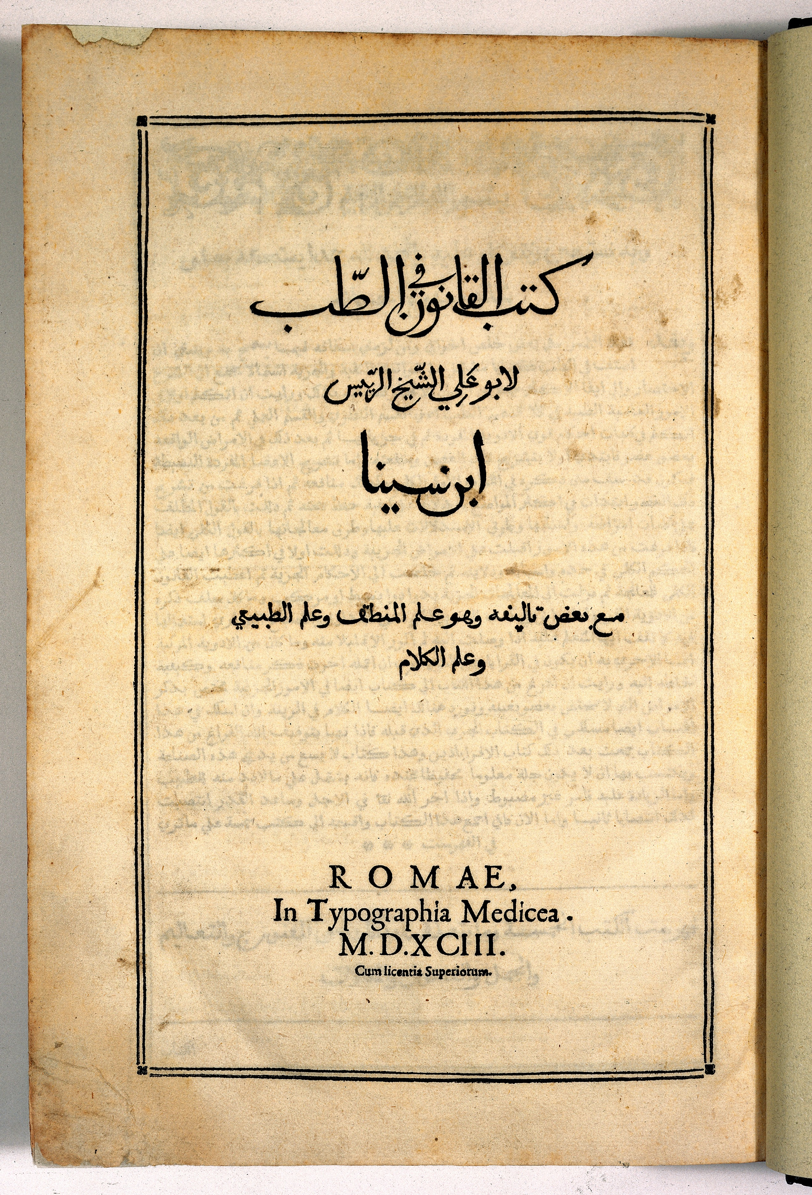 Title page. Rare Books